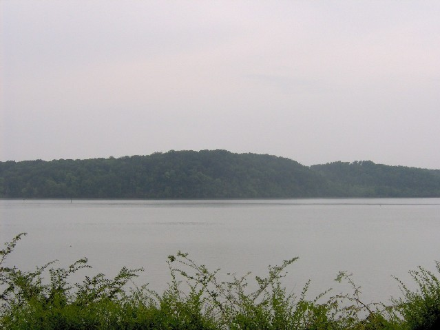 The now-submerged site of Tanasi along the Little Tennessee River. Tanasi, the capital of the Cherokee in the early 1700s, was the namesake for the state of Tennessee. Bacon's Bend is on the opposite shore.